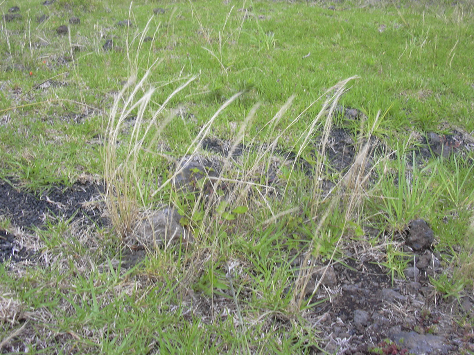 Vulpia myuros (habit). Location: Maui, Auwahi